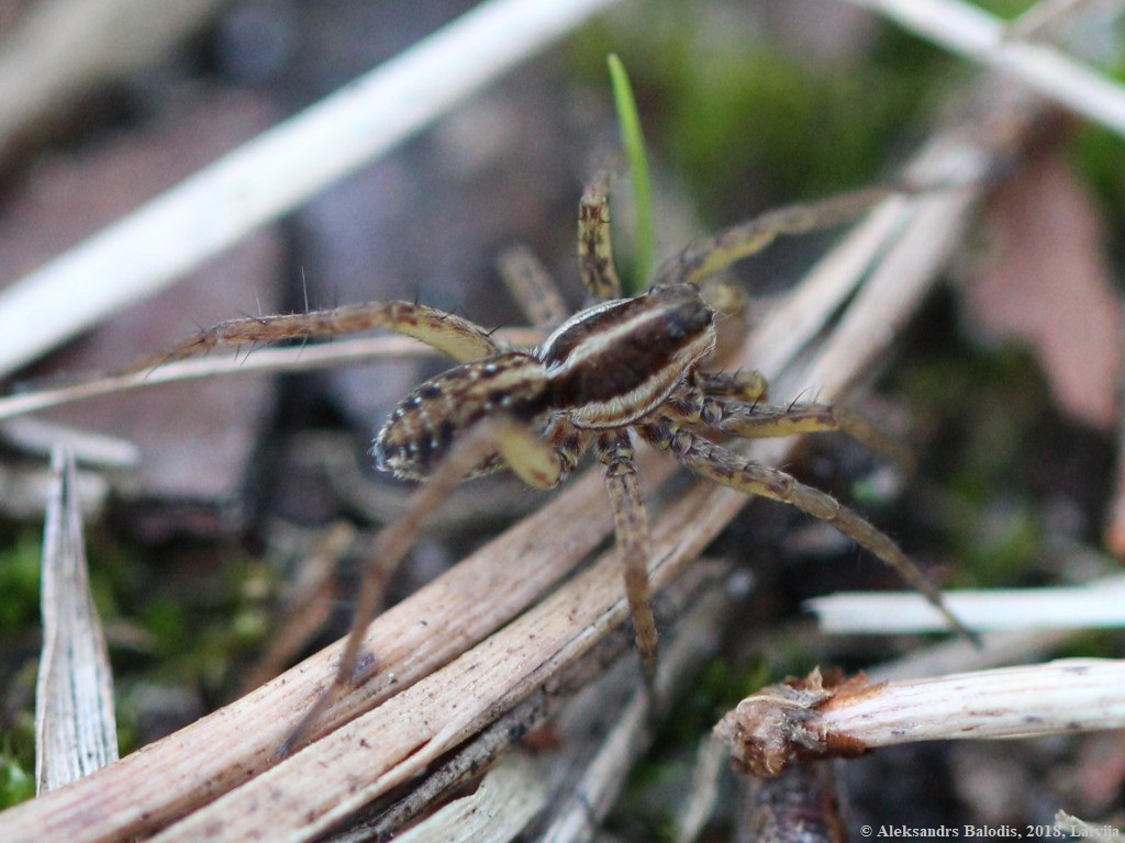 Pardosa monticola